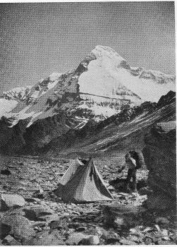 Nanda Devi Main Peak, 25,645 feet, from the South.